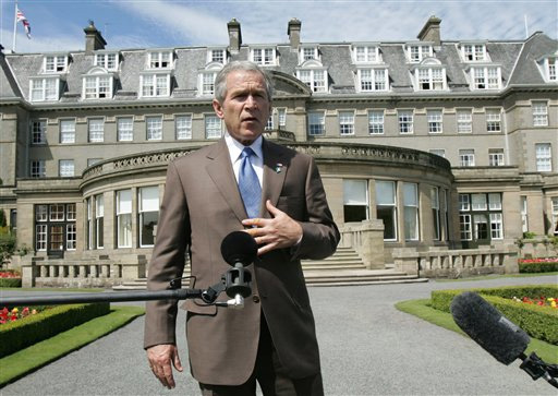 President George W. Bush delivers a brief statement to the media outside the Gleneagles Hotel in Auchterarder, Scotland Thursday, July 7, 2005, regarding the terrorist attacks in London that occured earlier in the day.